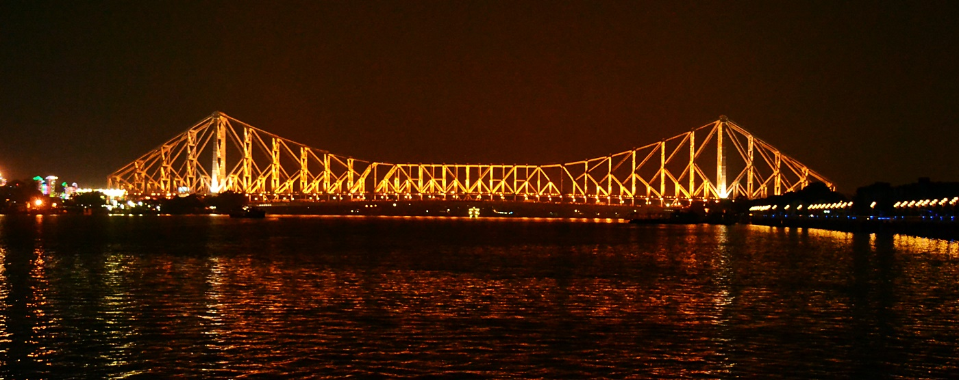 A panoramic shot of the well lit Howrah bridge, Kolkata, India